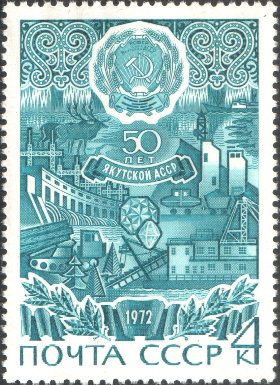 USSR stamp: Yakut Autonomous Soviet Socialist Republic (Established on 1922.04.27). Series: 50th Anniversary of the Autonomous Republics of the Soviet Union